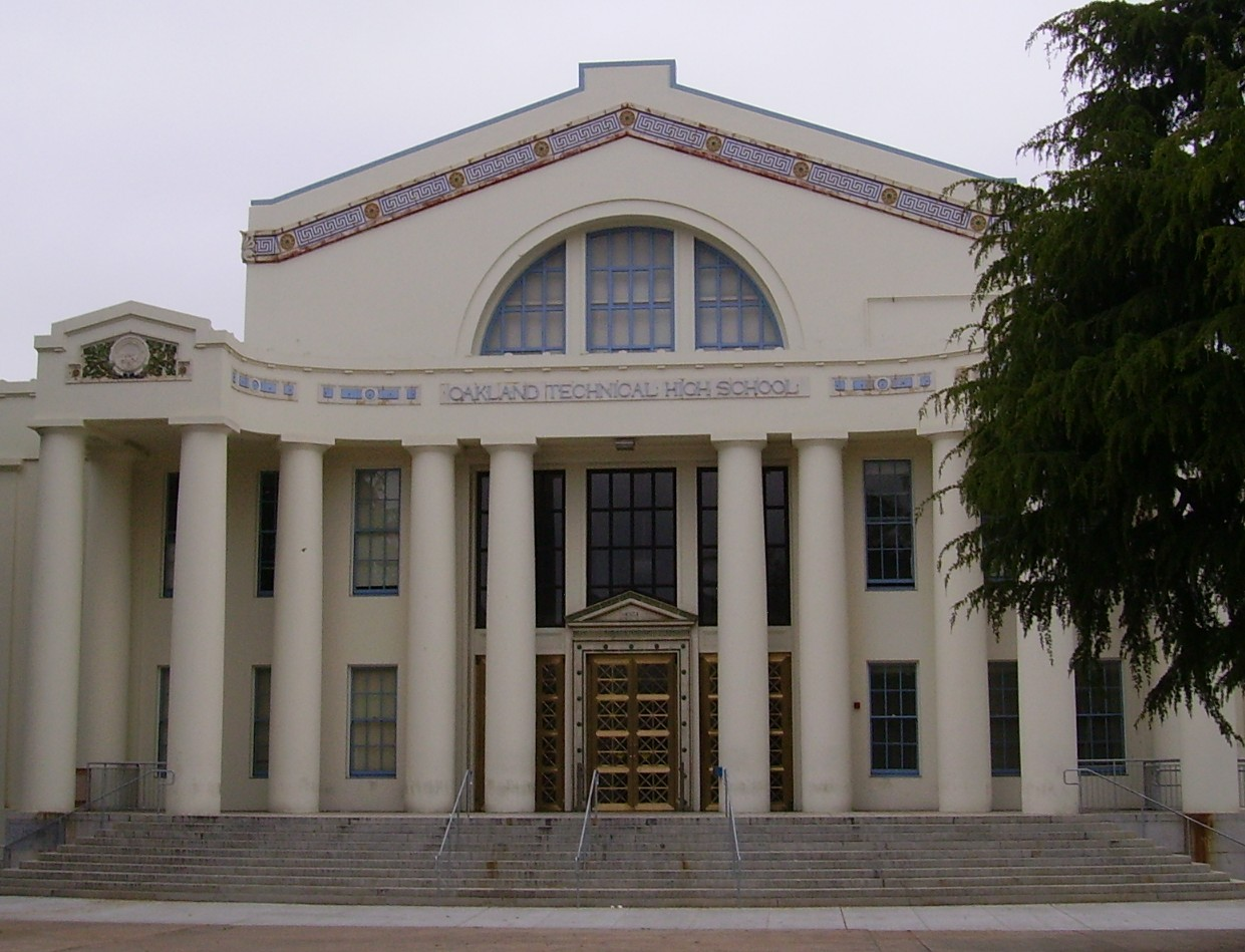 Picture of Oakland Technical High School from Broadway.